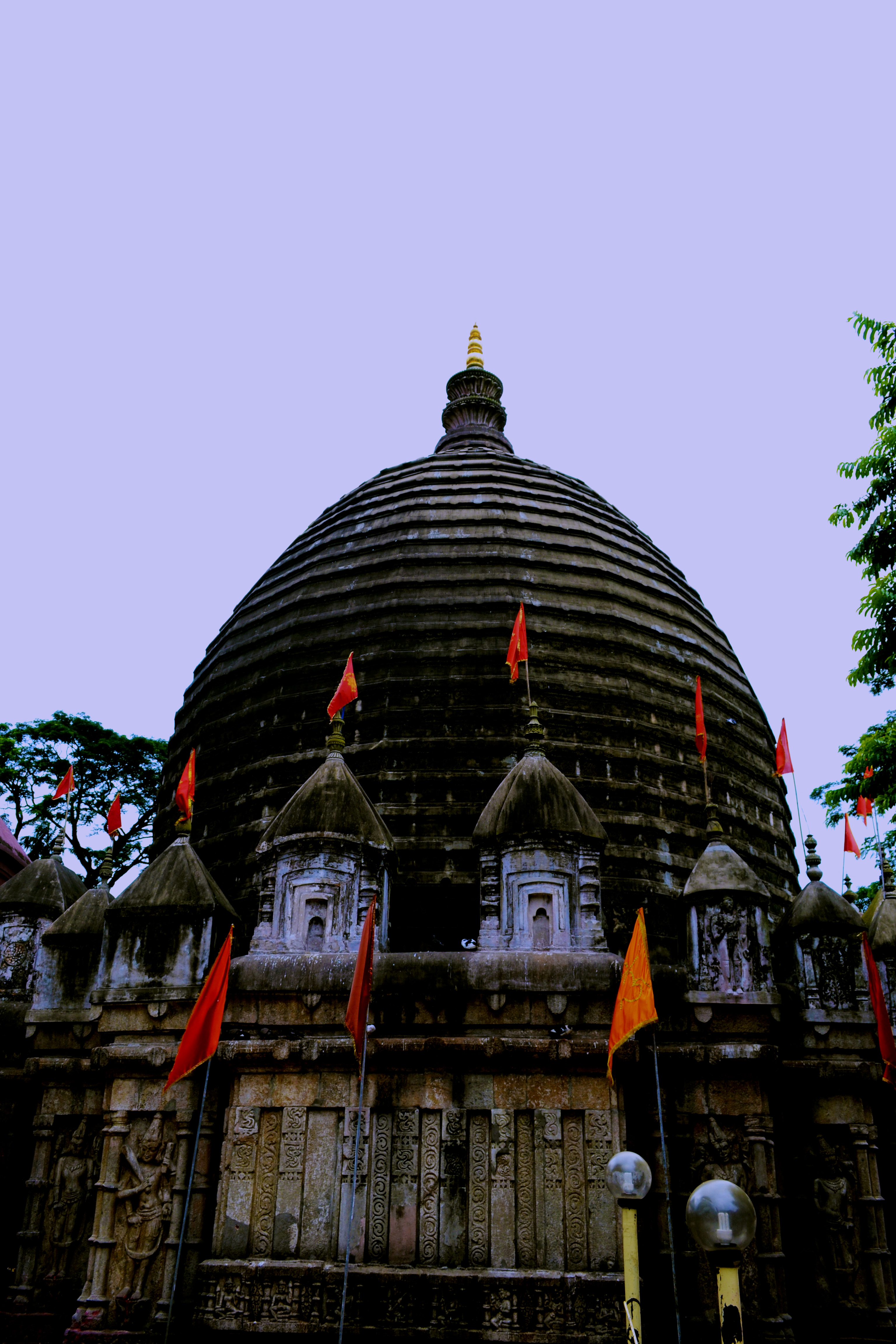 It is located in the Nilachal Hills in the western aprt of Guwahati. It is known as kamakhya temple. Every year Ambubachi mela is held here.